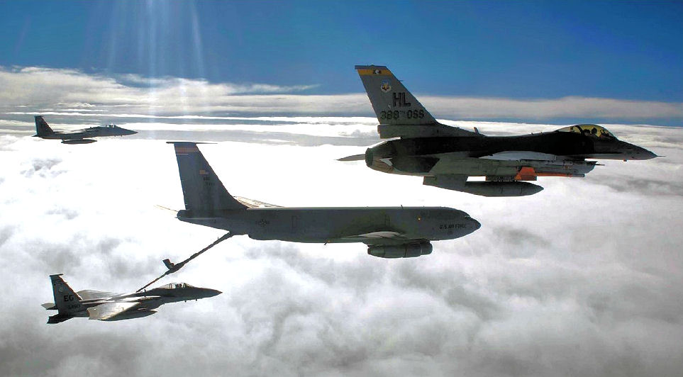 MadDill AFB KC-135 refueling F-16s from Hill and F-15s from Eglin